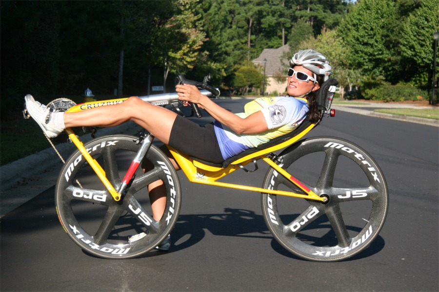 Maria Parker posing on the Cruzbike Vendetta recumbent bicycle